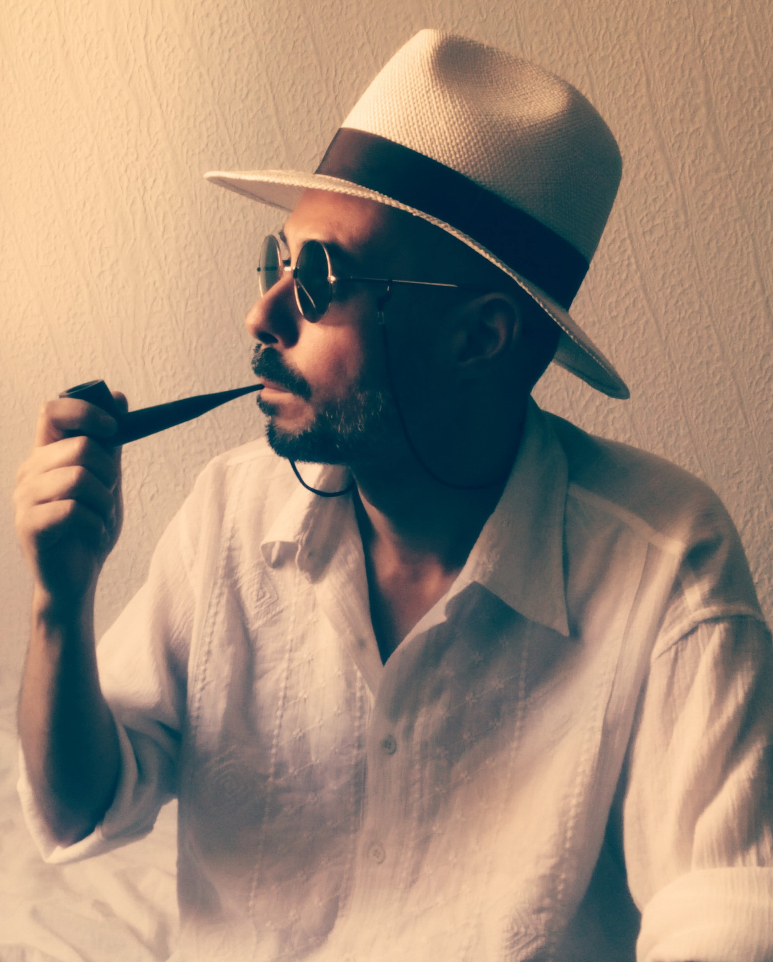 Nikola Giljen picture